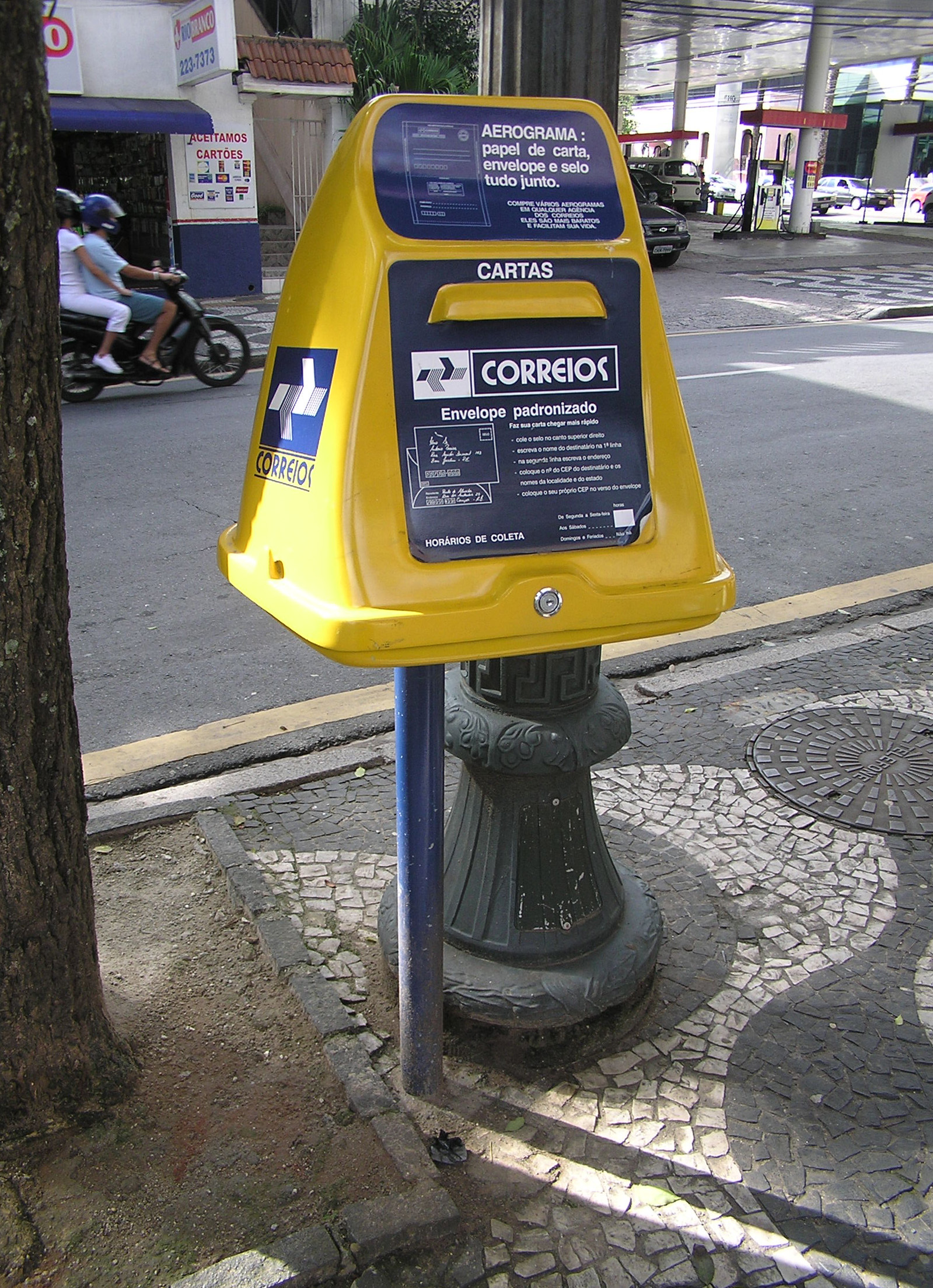 A typical Brazilian mailbox.